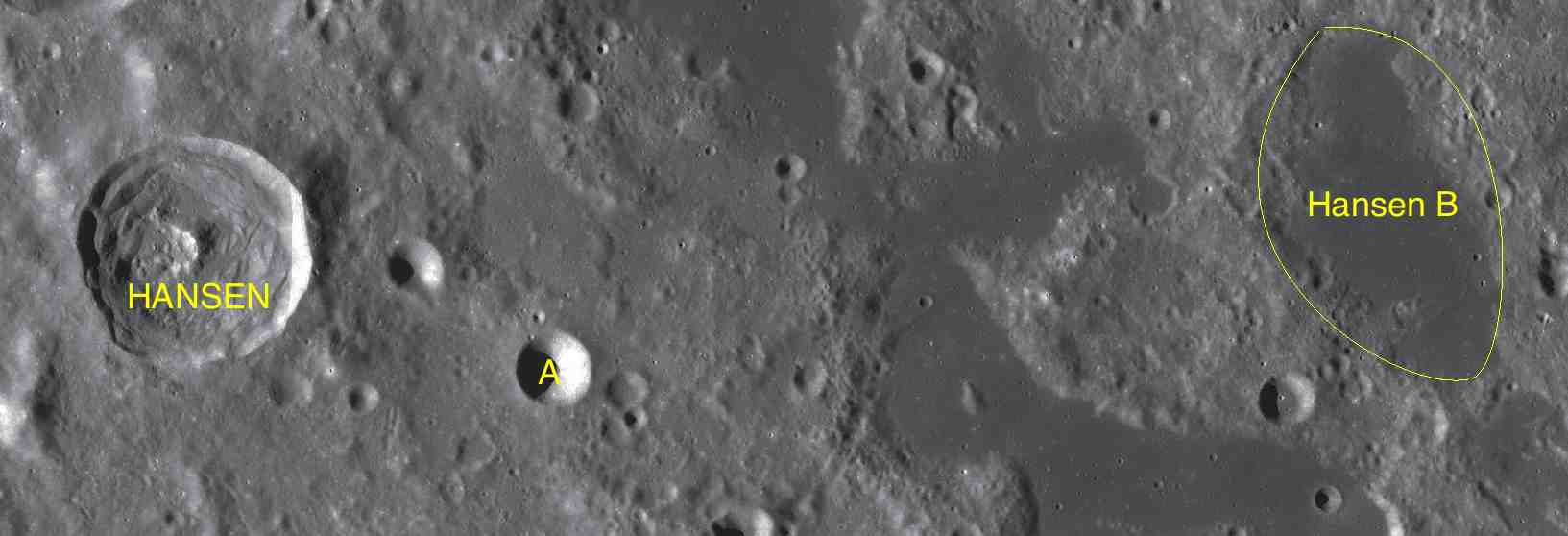 Part of the chart LAC-63 used for the presentation